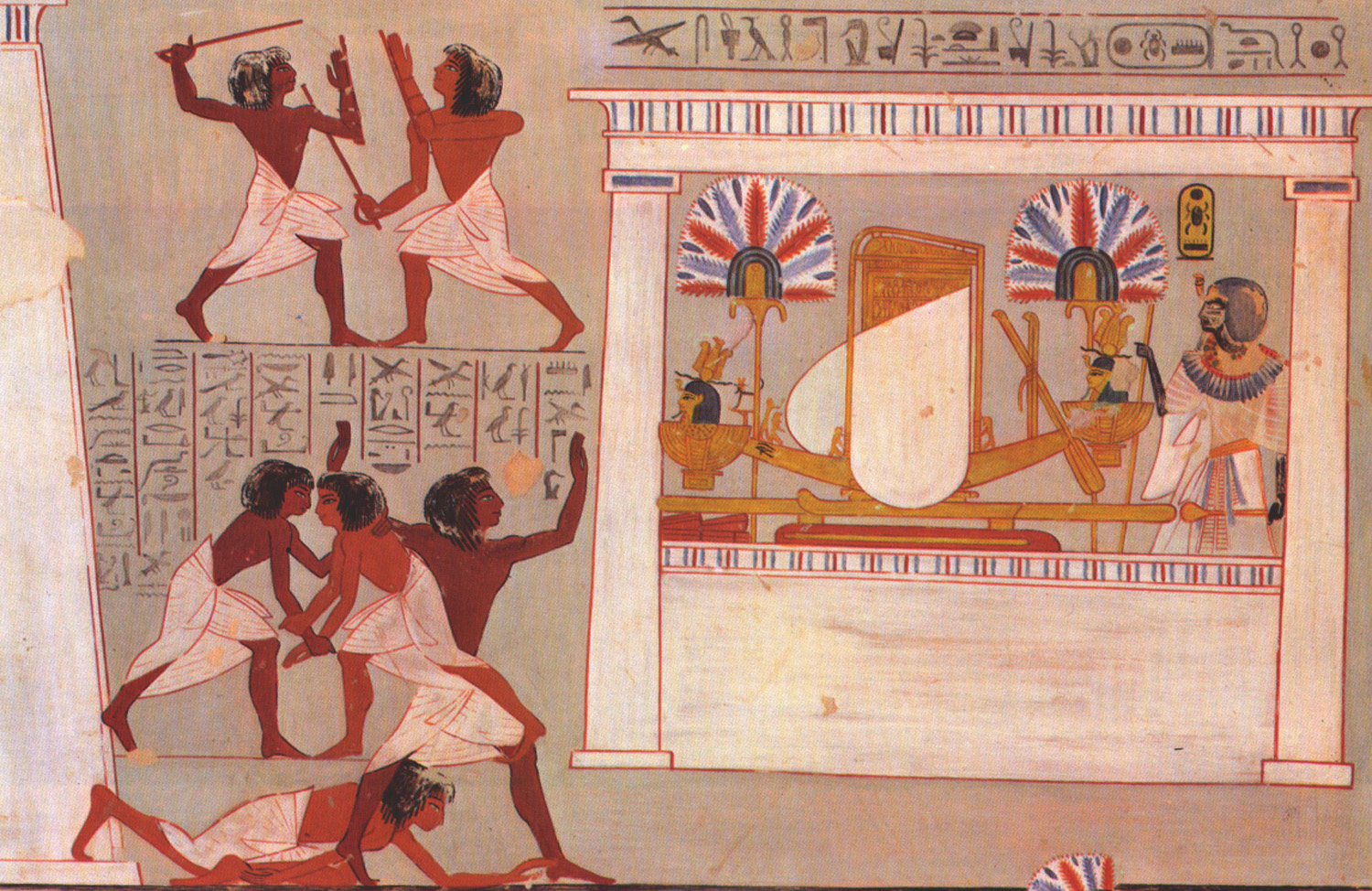 Facsimile, Amenmose (TT 19)